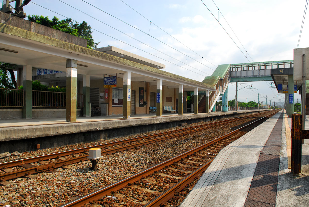 Dingpu Station is a small local train station of Yilan Line, part of Taiwan's eastern rail line.